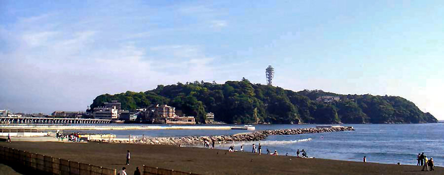 Photograph of Enoshima Island Fujisawa, Japan